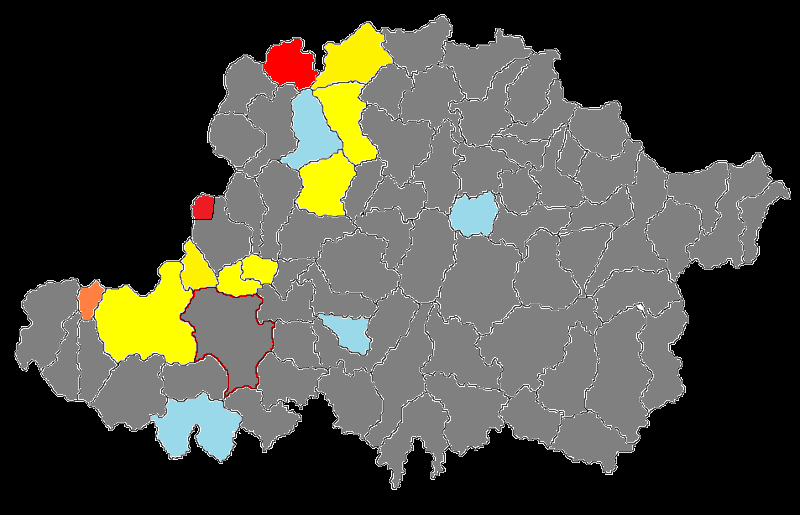 Hungarian minority in Arad County (Romania), according to the 2011 census, by communes (red = hungarian majority over 80%, orange = hungarian majority between 50 - 70%, yellow = hungarian minority over 20%, blue = hungarian minority between 10 - 20%, grey = hungarian minority under 10%).